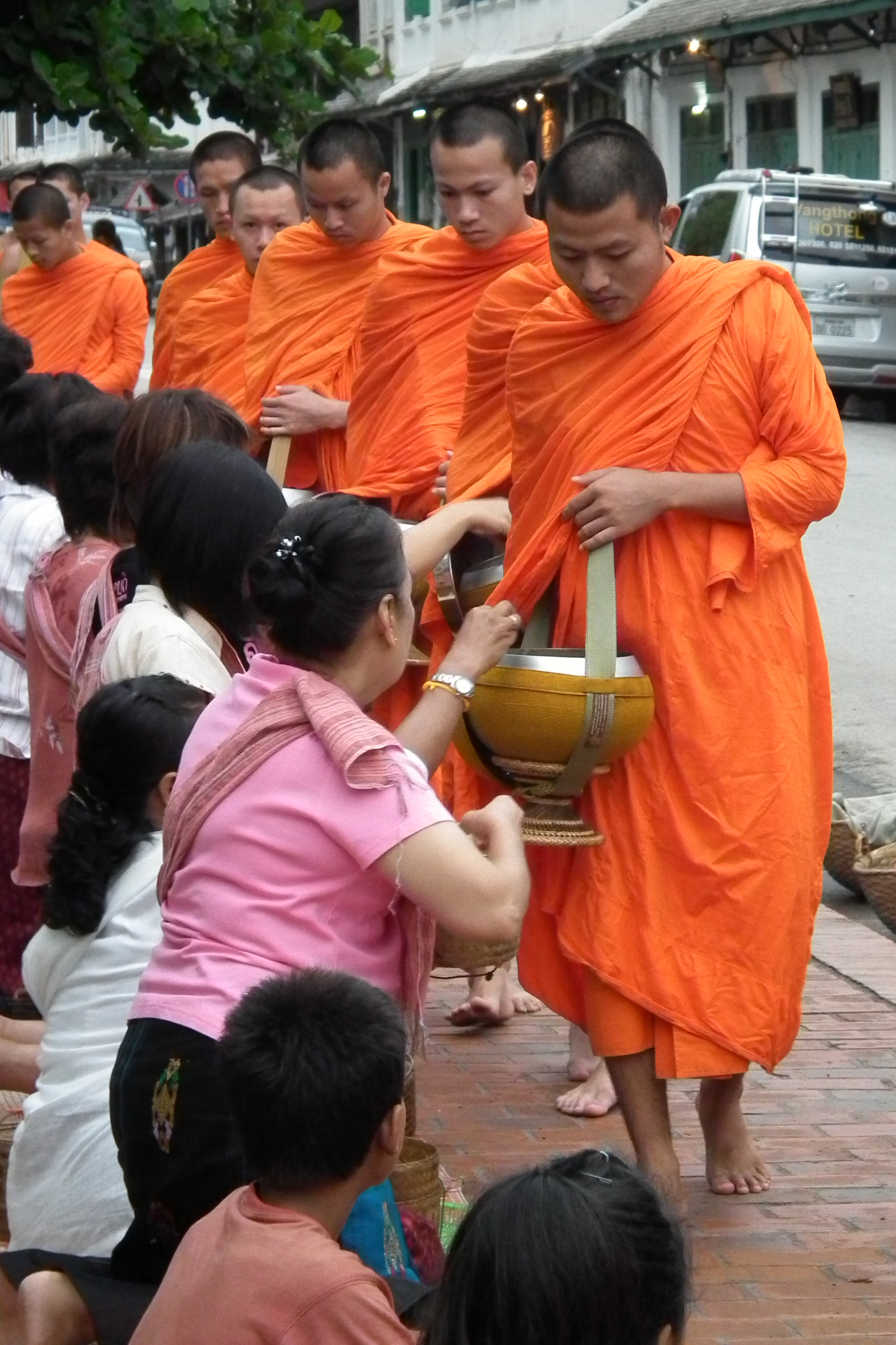 Makatana from Manado ~hacked by MAKATANA